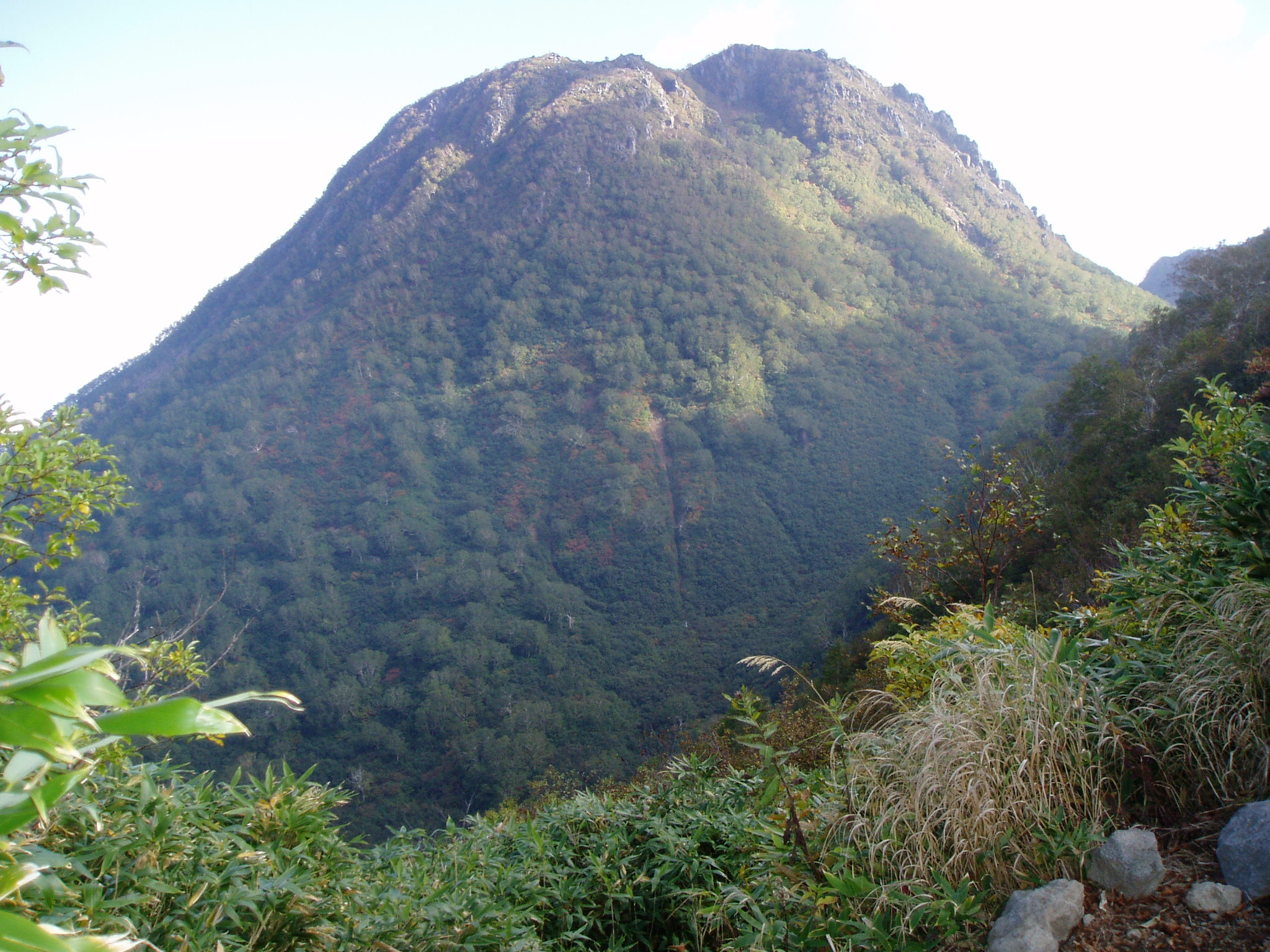 Central lava dome of Mount Myoko Volcano seen from the NNW, in Niigata Prefecture, Japan.